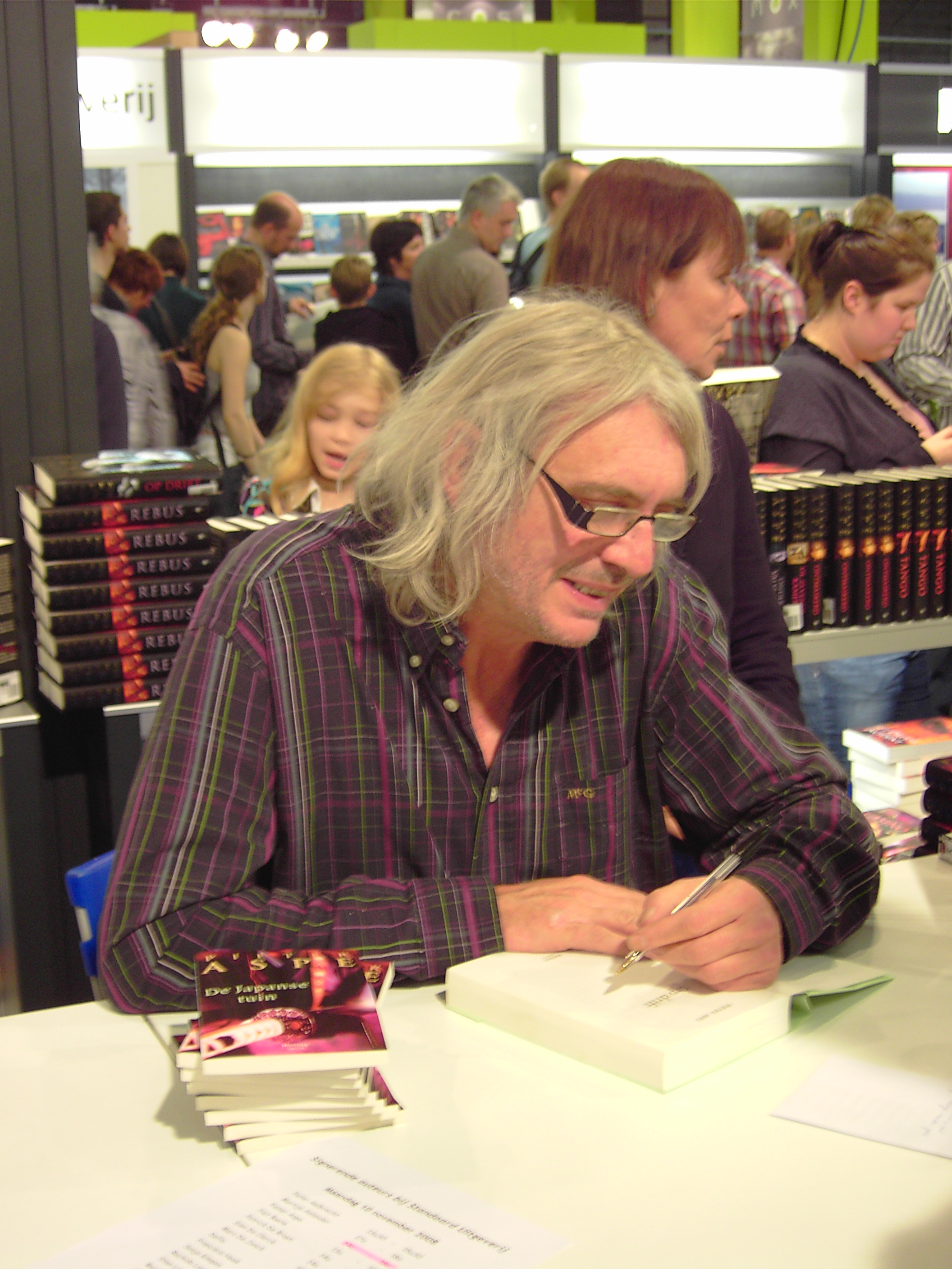 Pieter Aspe (Antwerp Book Fair - 10 November 2008)